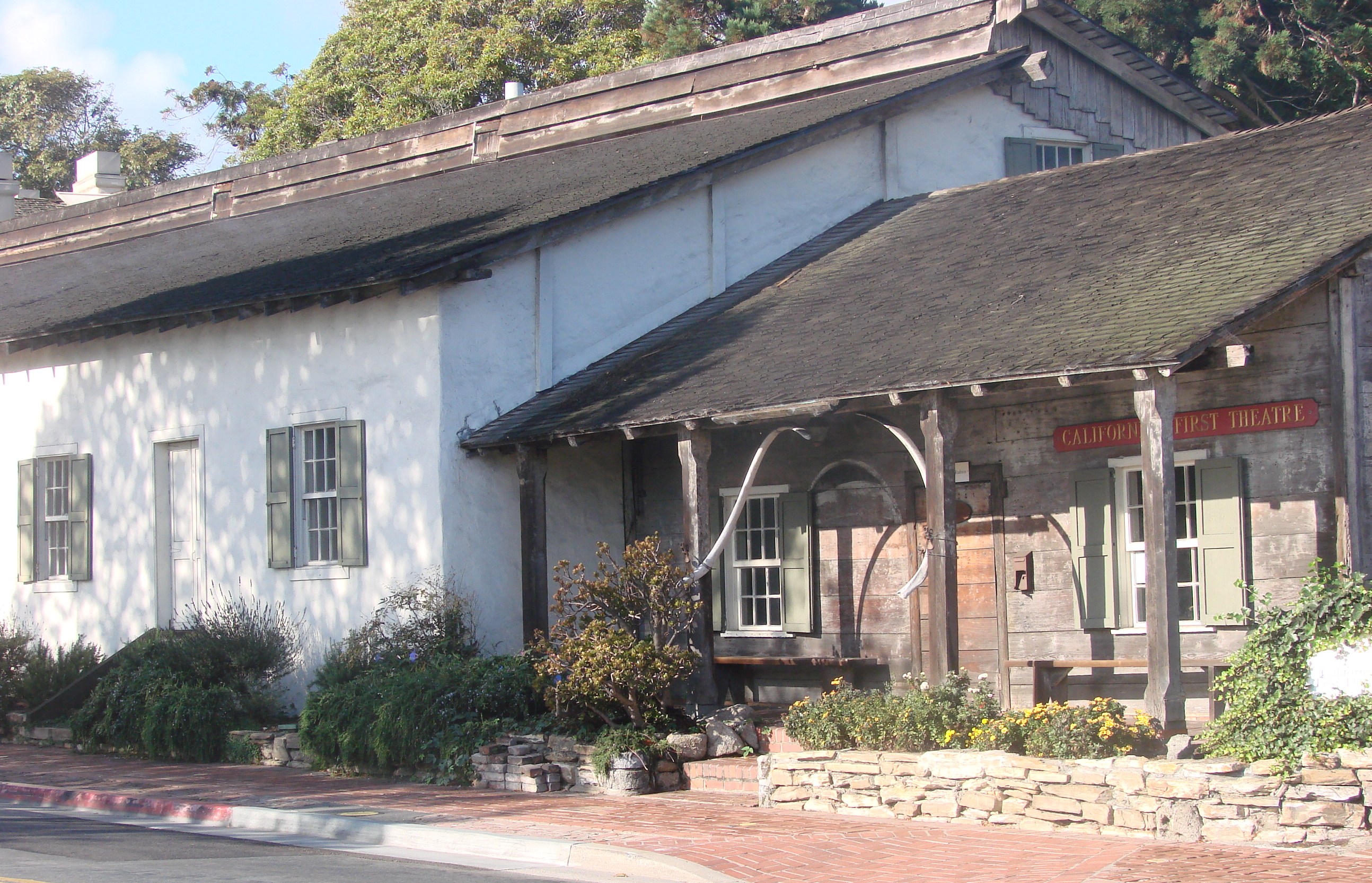 California First Theatre, Monterey, California